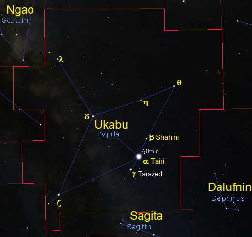 Aquila constellation as seen from Tanzania, Swahili labeled, close view Kiswahili: Kundinyota ya Ukabu (Aquila) jinsi inavyoonekana Tanzania (ndogo)